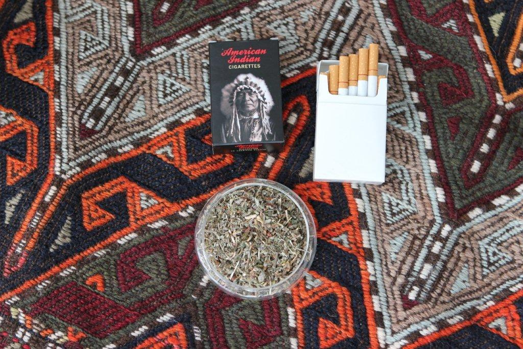 Herbal Cigarettes